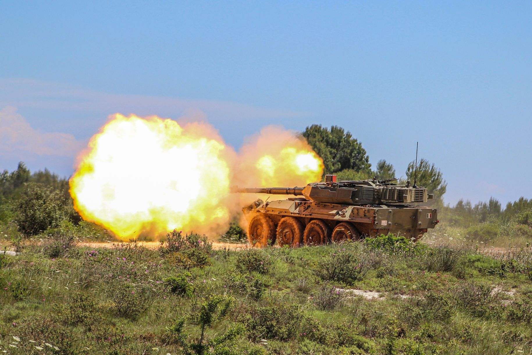 Italian Army Cavalry Regiment "Lancieri di Montebello" (8°) Centauro tank destroyer firing during an exercise, May 2019